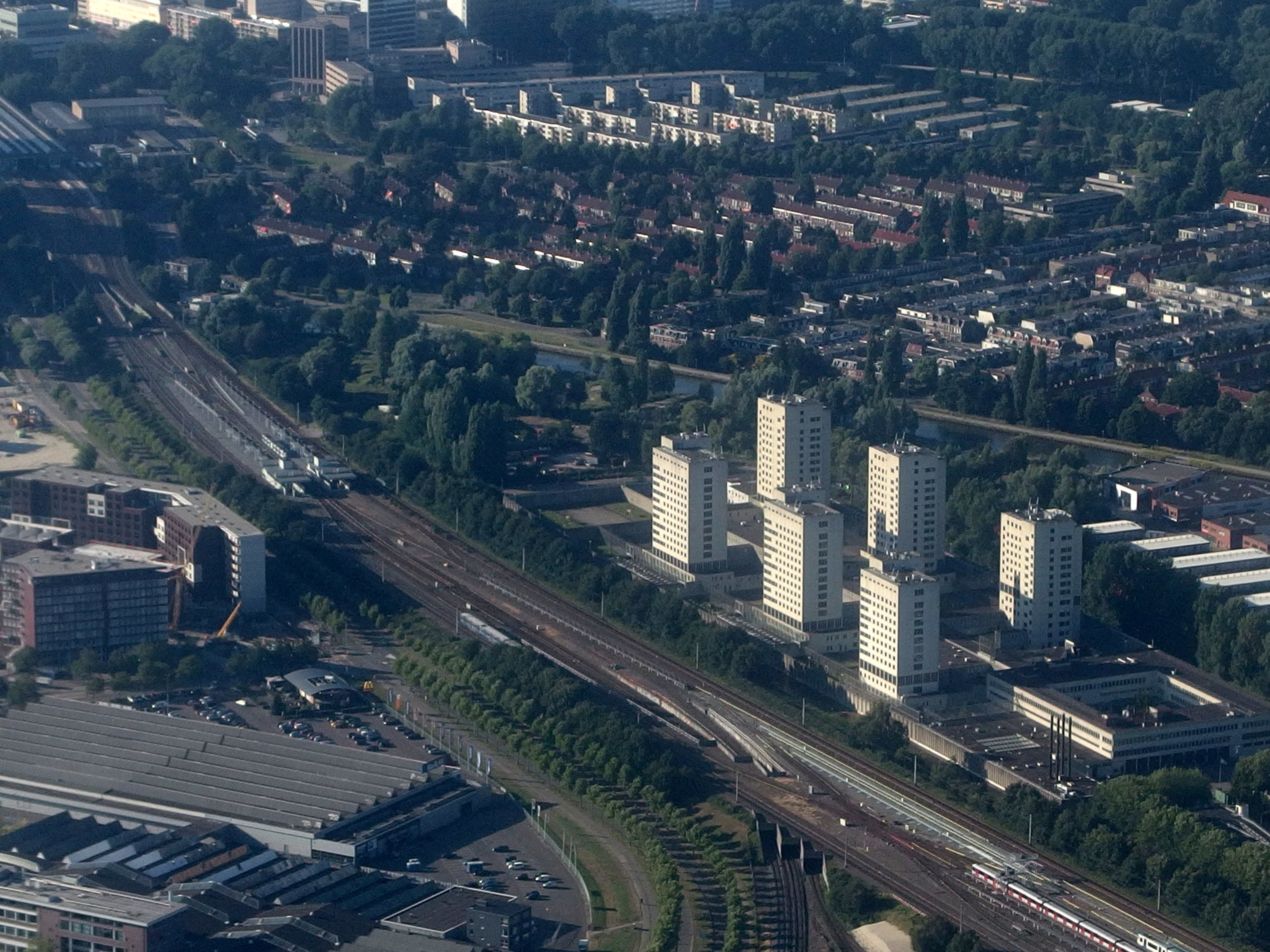 2014-07-03 approaching Schiphol Airport.